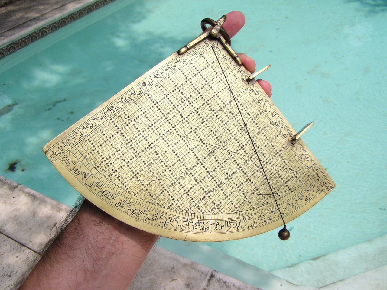 Physical characteristics of this quadrant: Material: Yellow Brass; Length of Limb: 6-3/8" (163 mm.); Radius of Graduated Arc:5-1/8" (131 mm.); Thickness of Plates (Tot.): 7/64" (2.5 mm.); Chord Length of Limb: 9-1/16" (230 mm.); Sight Radius:2-3/8" (60 mm.); Gerry Young -- a student seeking Truth. 01:00, 22 July 2009 (UTC) Photograph of instrument from my personal collection taken by me on 29 April 2003. The cord and plummet are modern restorations to illustrate the use of the quadrant.